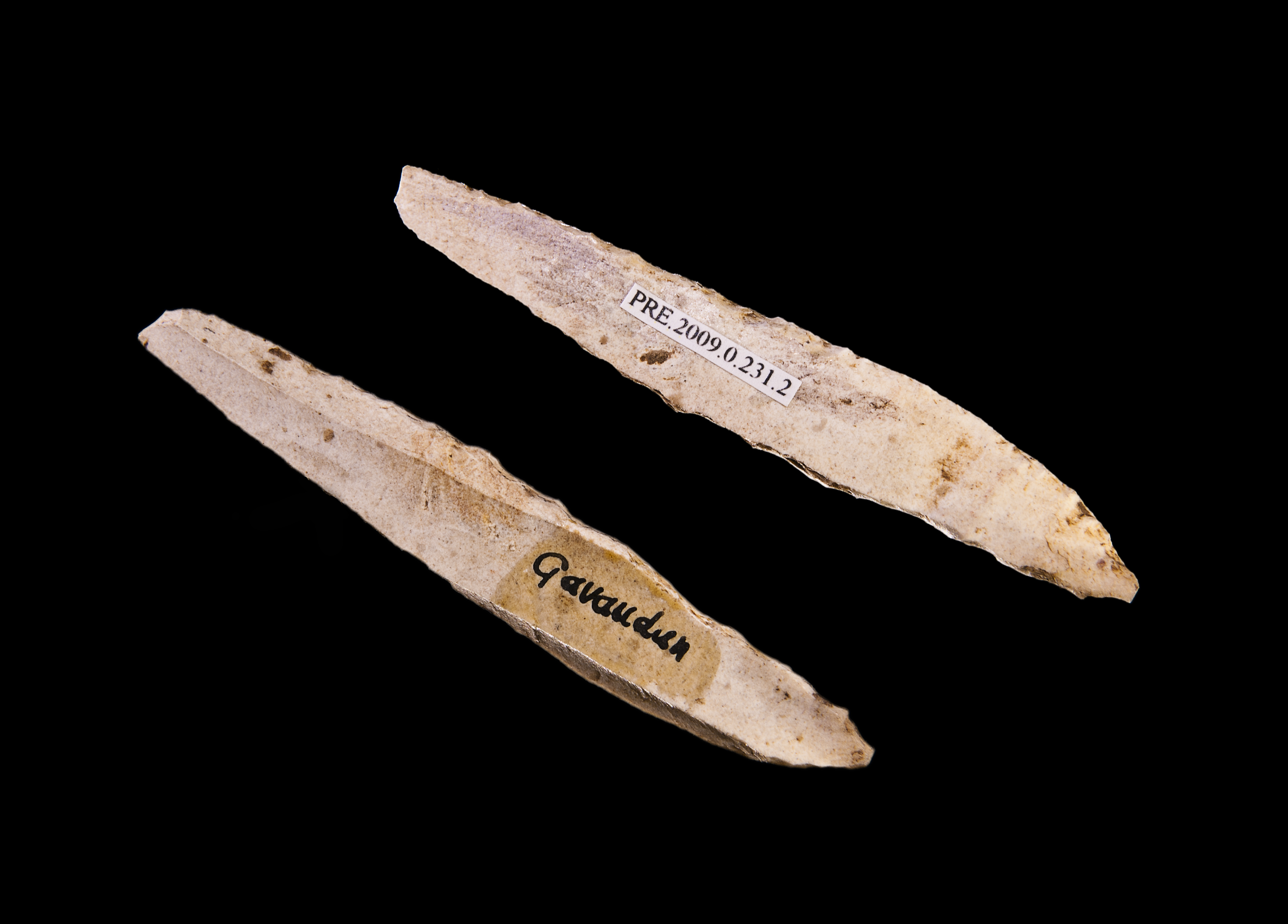 Micro-gravette - Different views of the same specimen